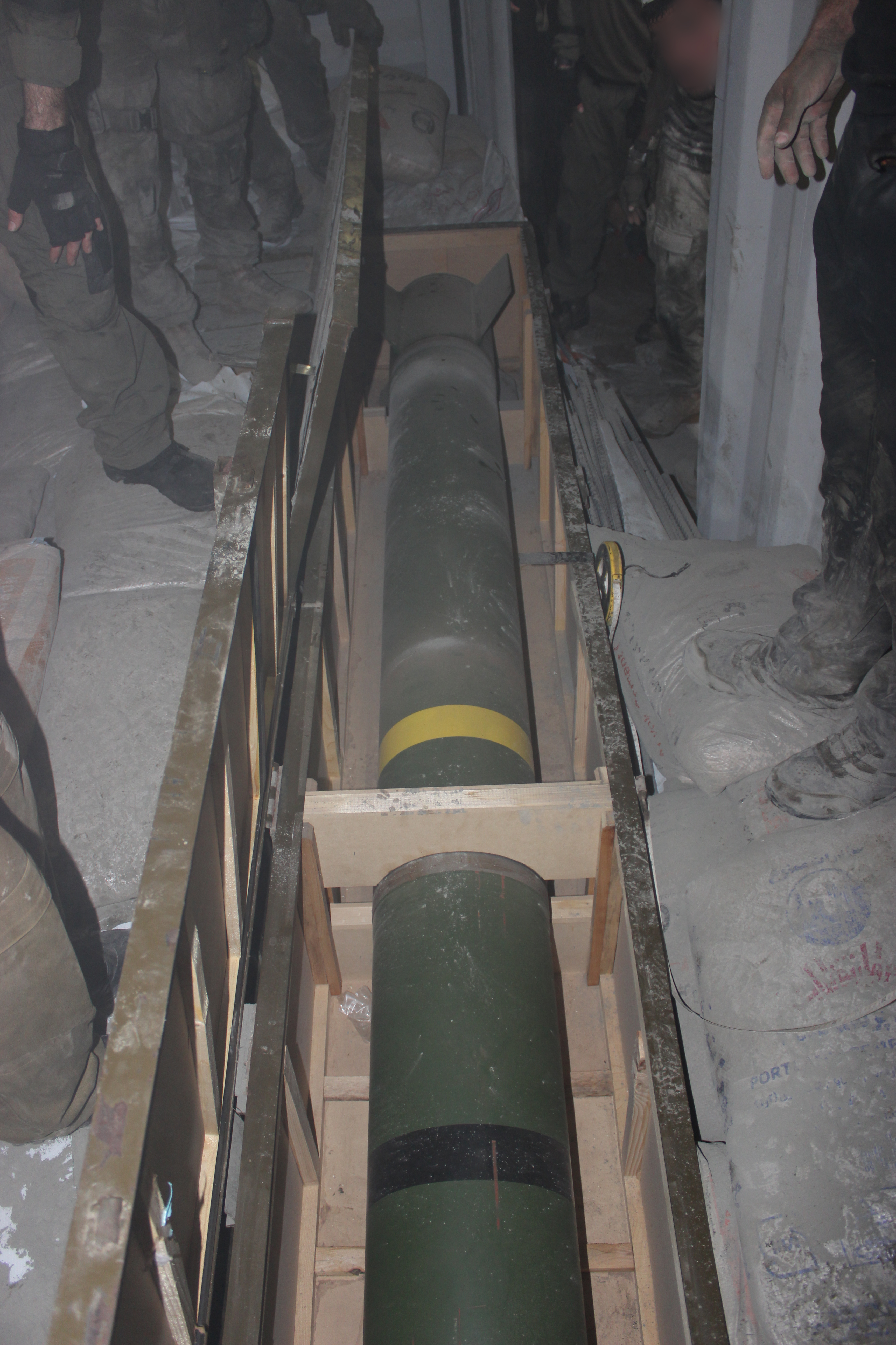 Early this morning, the Israel Navy undertook a complex & covert mission. Our forces intercepted an Iranian shipment of advanced weapons intended for terrorist organizations in Gaza. The IDF forces exposed Syrian-made M-302 surface-to-surface missiles, which are capable of striking anywhere in Israel.